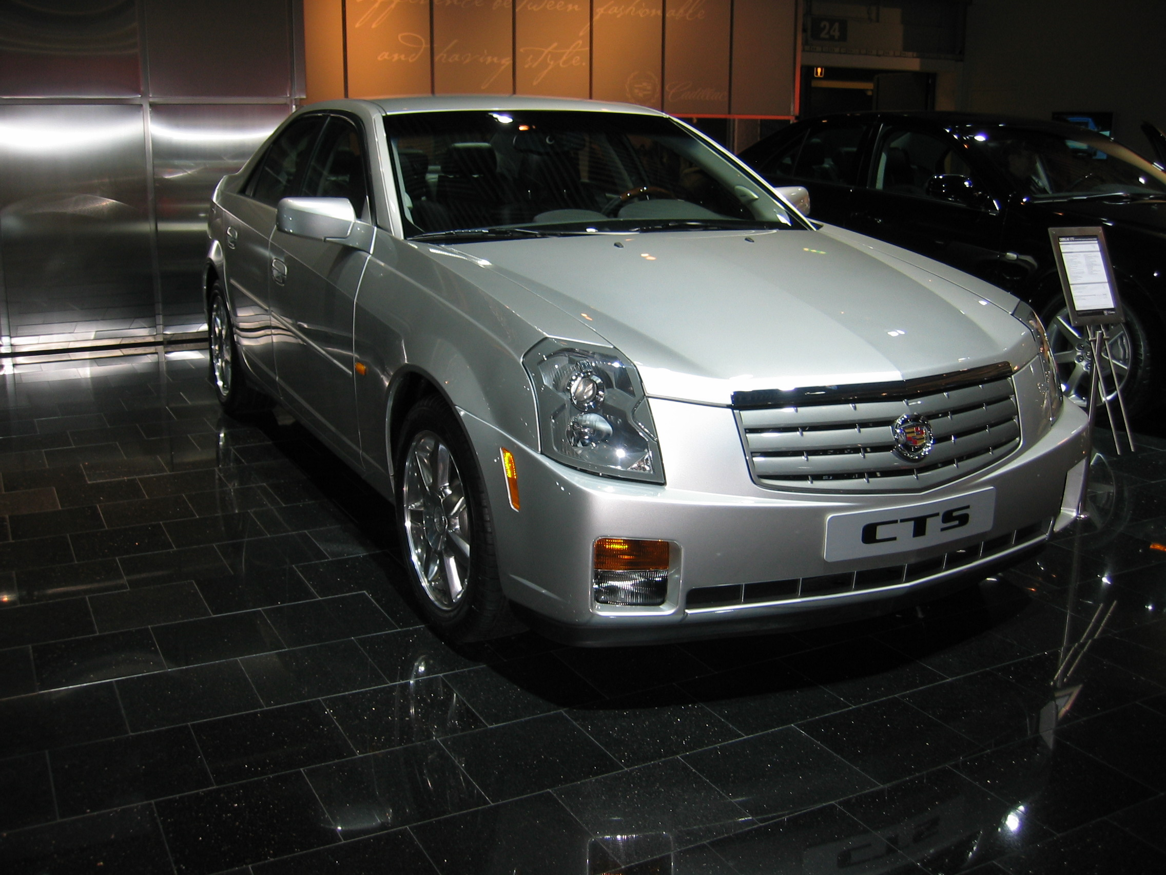 2006 Cadillac CTS